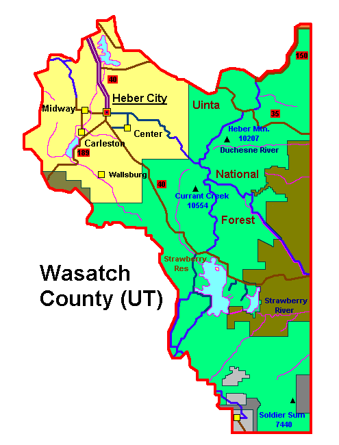 Wasatch County (UT)Details, selfmade graphic by R.Blauert (dk4hb)